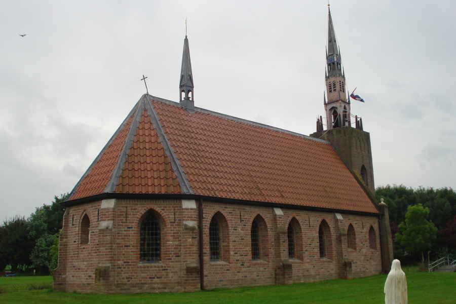 Photograph of Kerkje Harkema